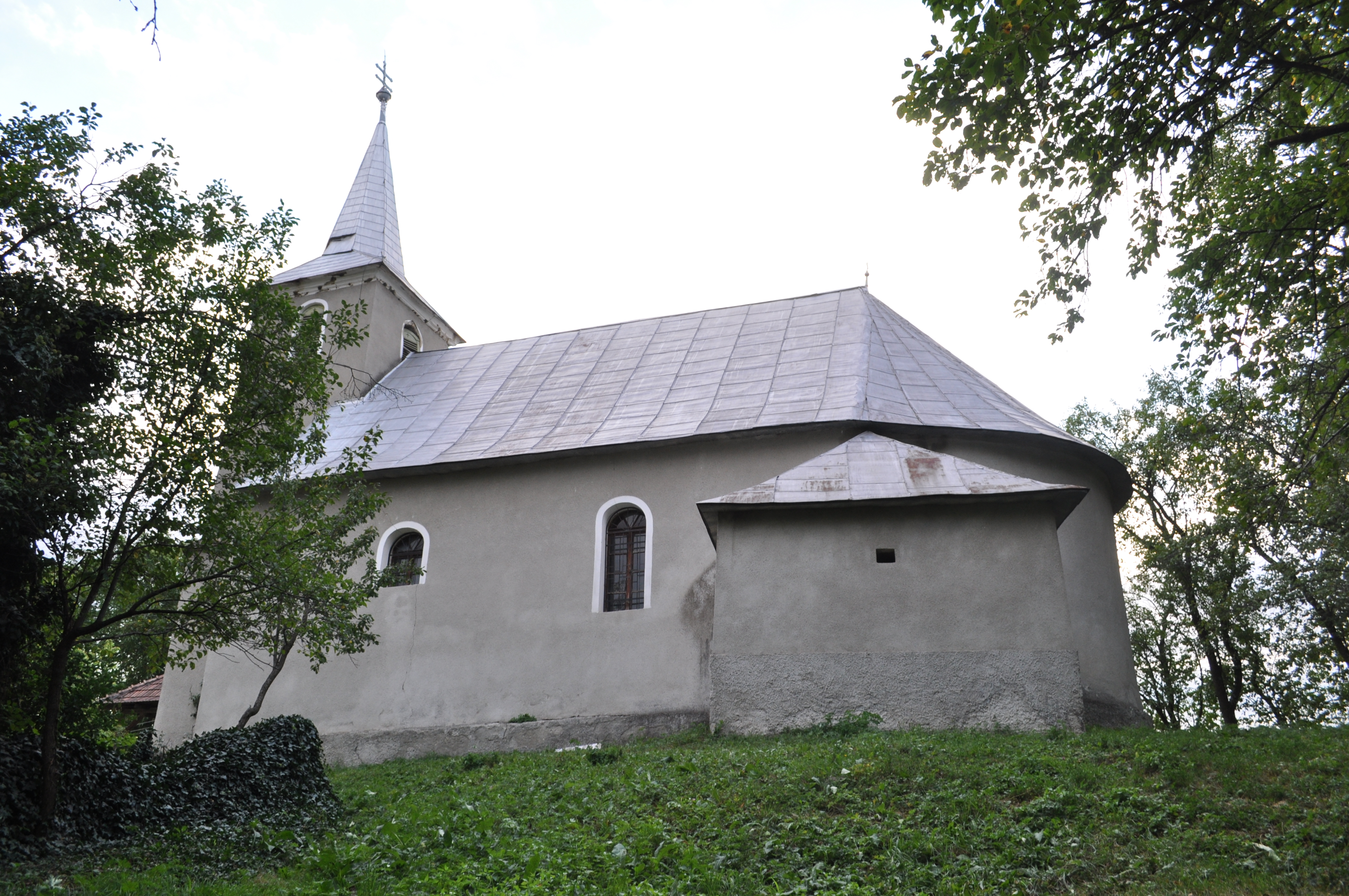 Roman-Catholic church in Chidea, Cluj countyRomână: Biserica romano-catolică din Chidea, județul Cluj